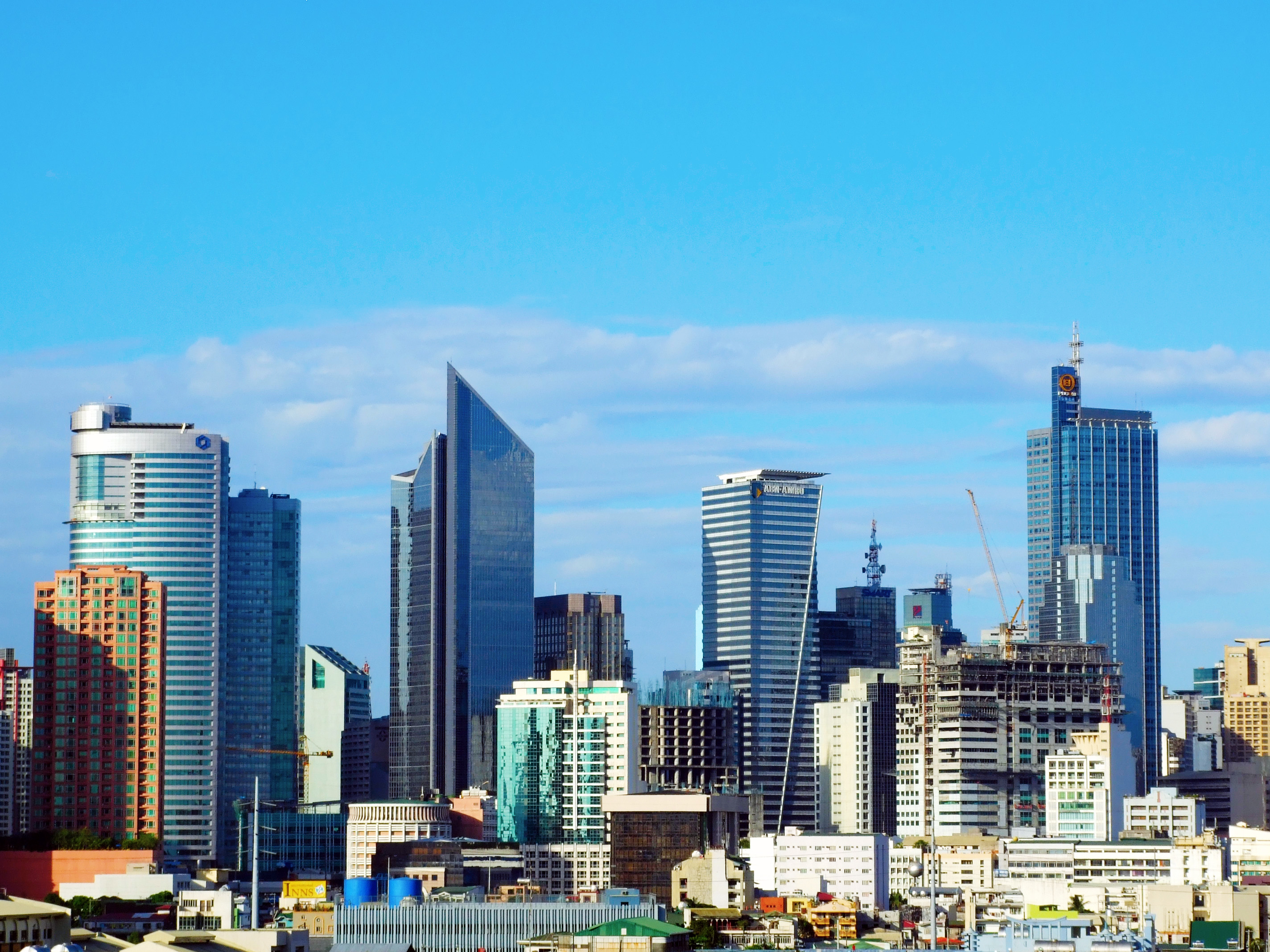 Makati skyline by j_0_n of flickr.